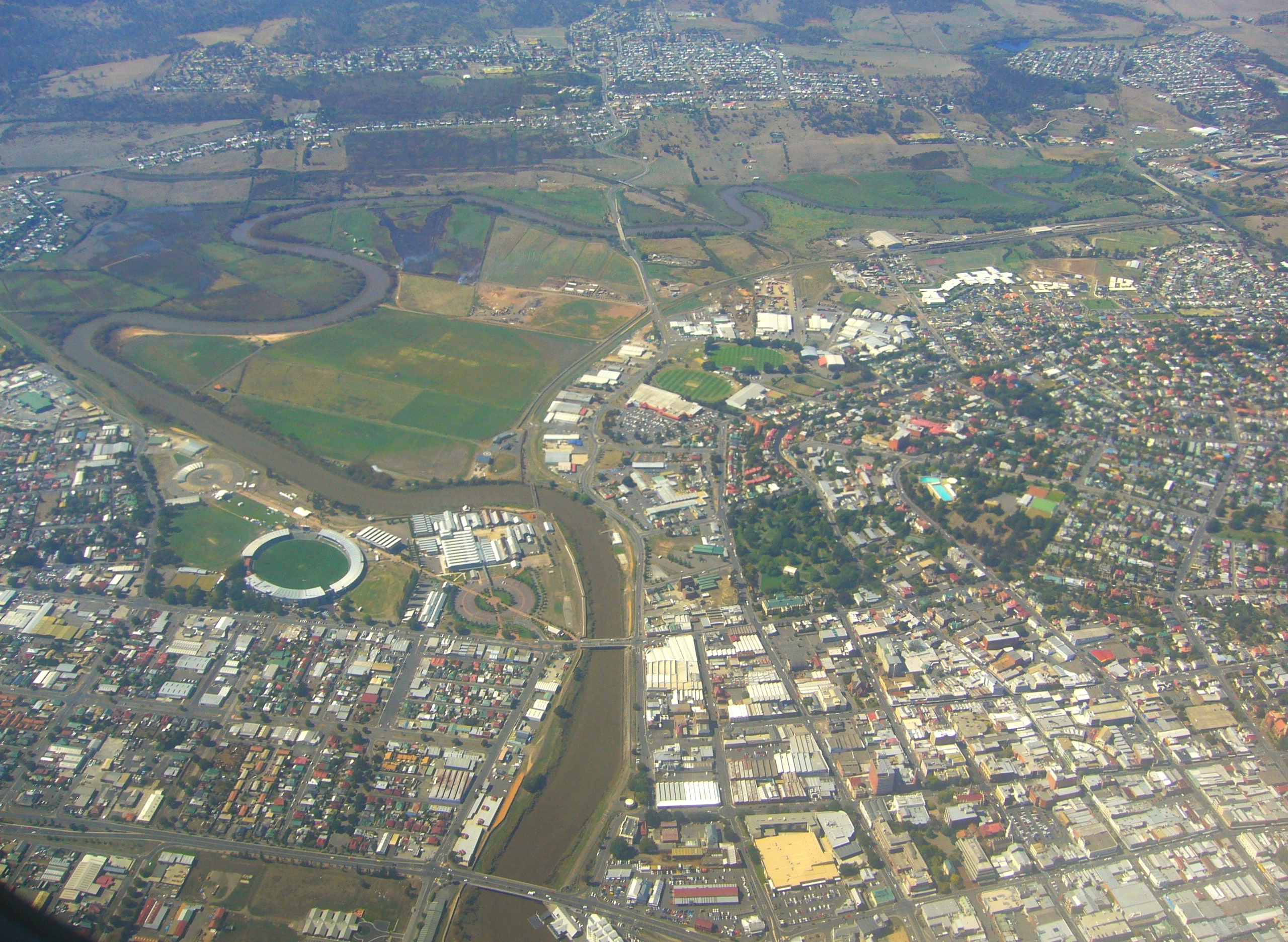 Launceston from Melbourne-Launceston flight, Tasmania, Australia